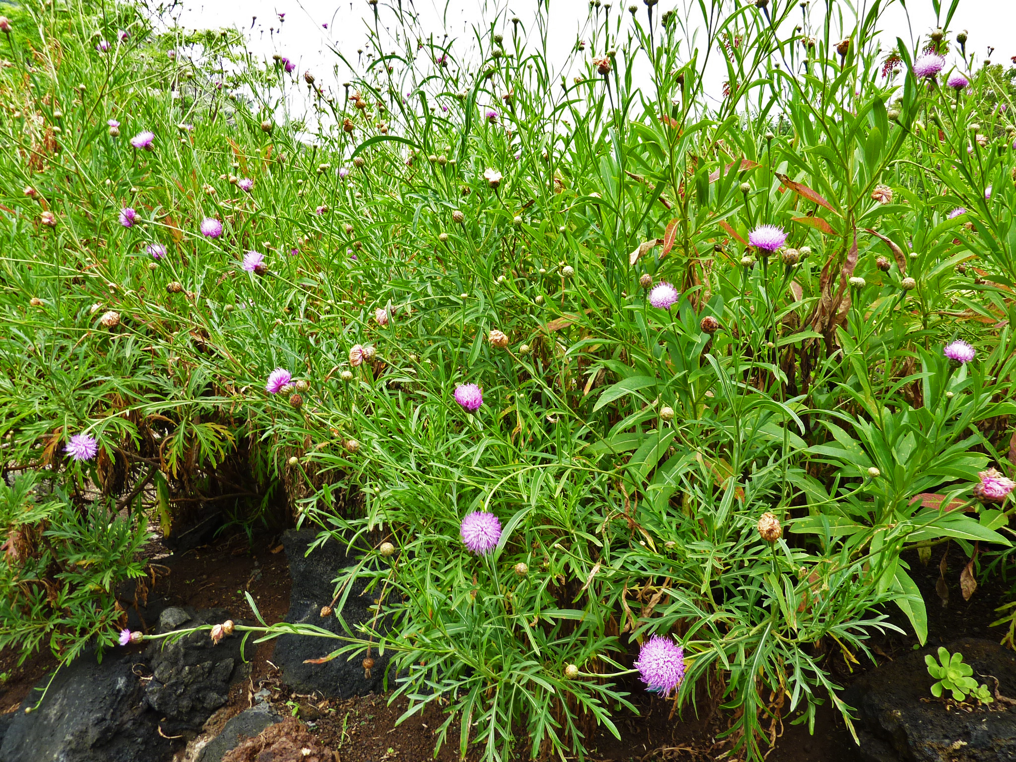 Cheirolophus falcisectus in the Jardín Botánico Canario Viera y Clavijo.